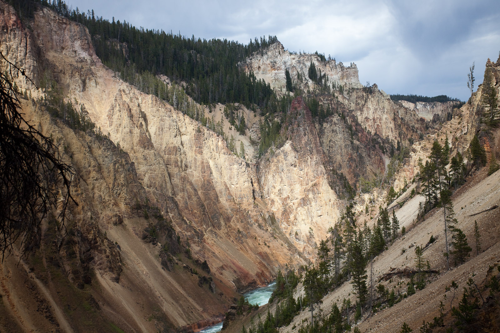 Grand Canyon of the Yellowstone